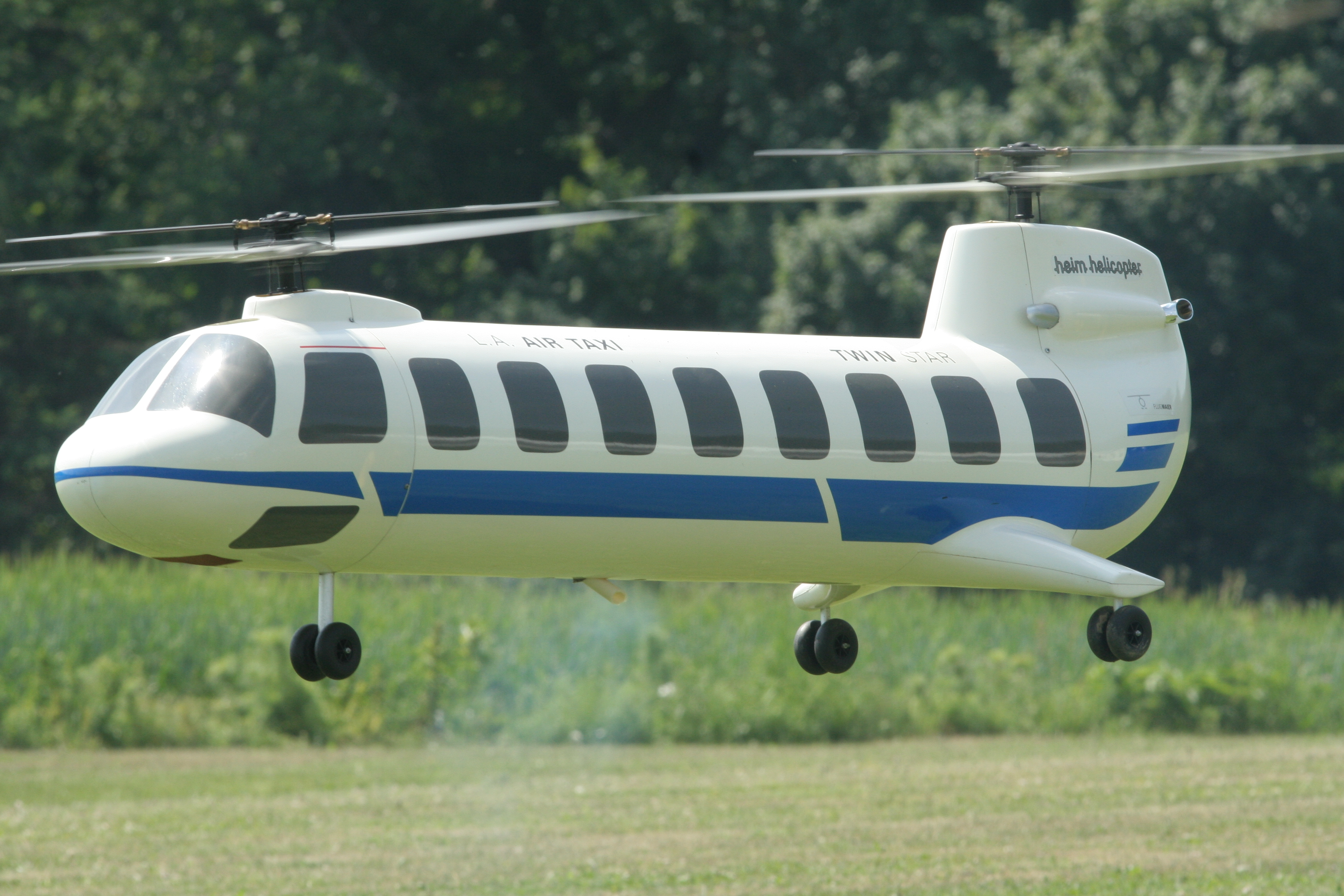 Radio-controlled helicopter